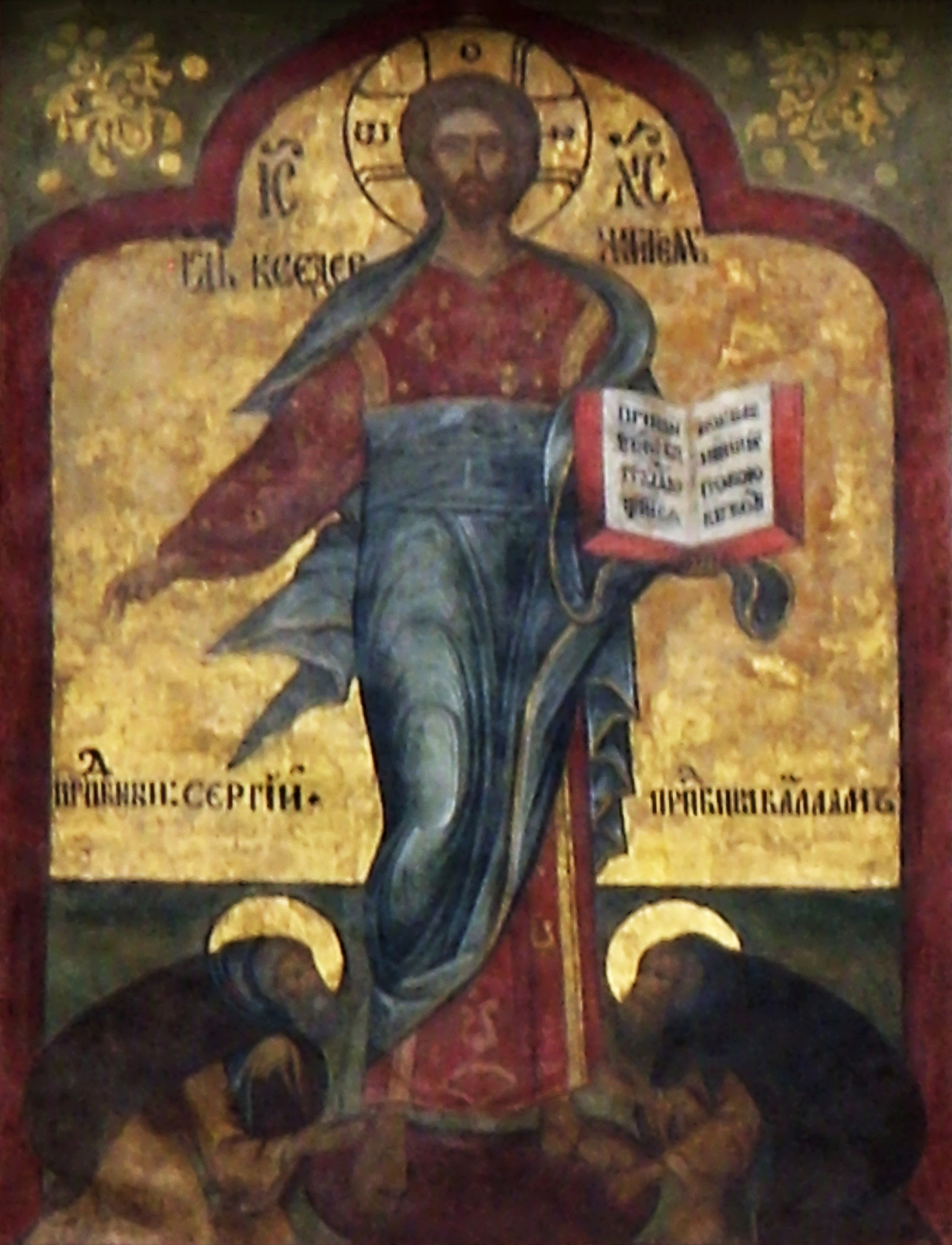 above the gate icon Savior Smolensky of the Spasskaya tower